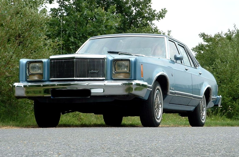 Mercury Monarch 1978